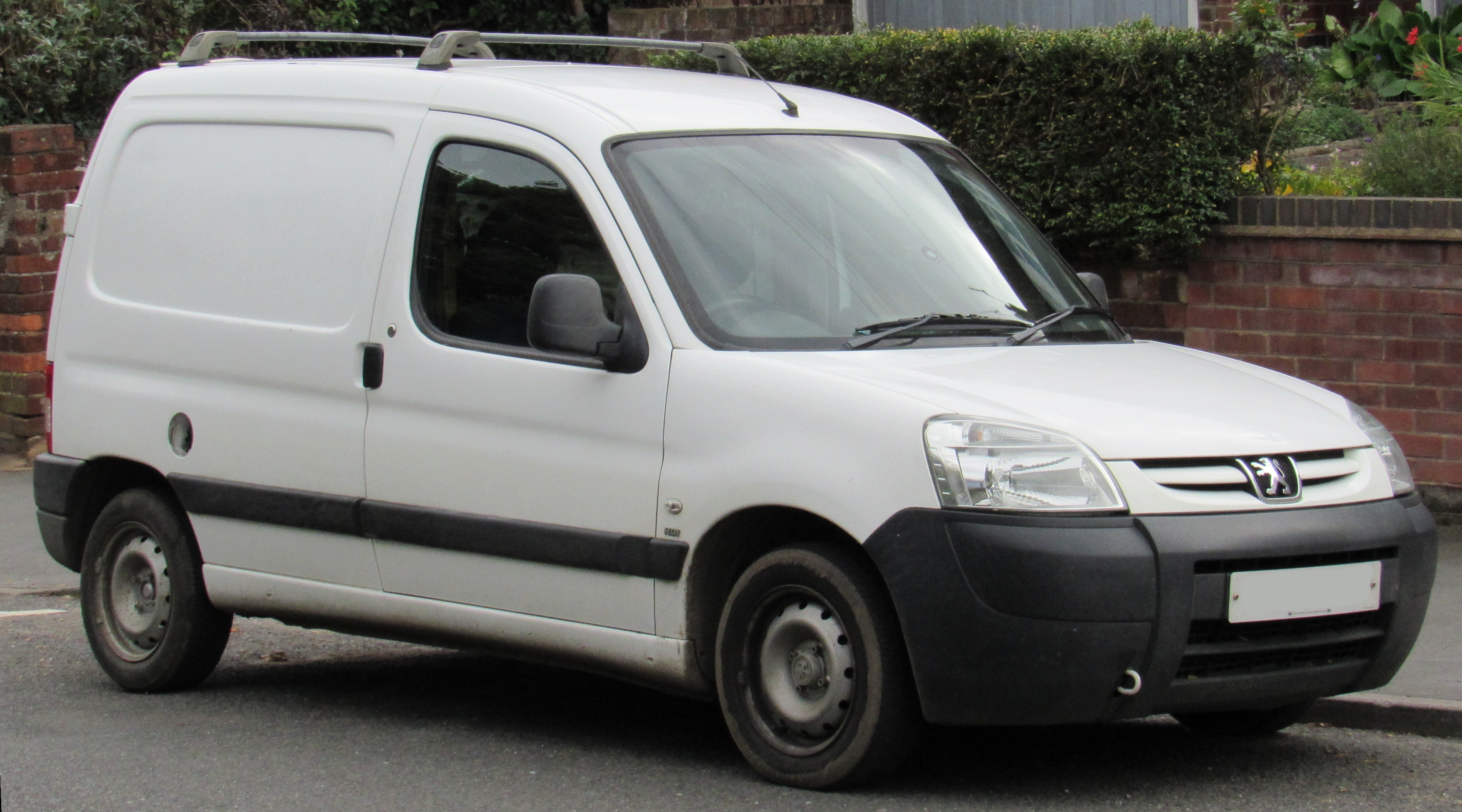 2007 Peugeot Partner L600 1.6 Front Taken in Leamington Spa